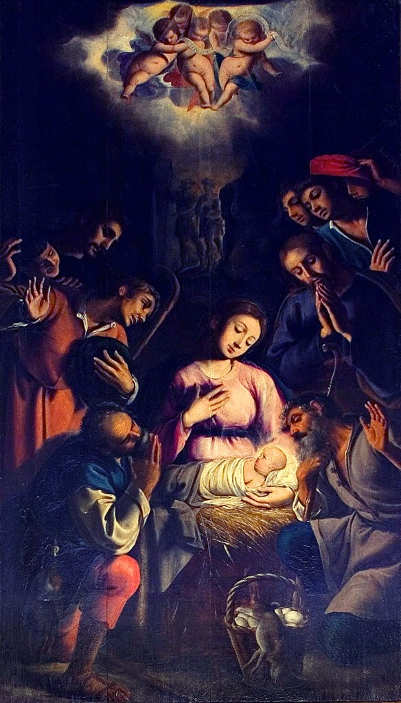 Adoration by the shepherds by André Reinoso (1641). It hangs in the chapel of the Palace of Belém, Lisbon, Portugal.